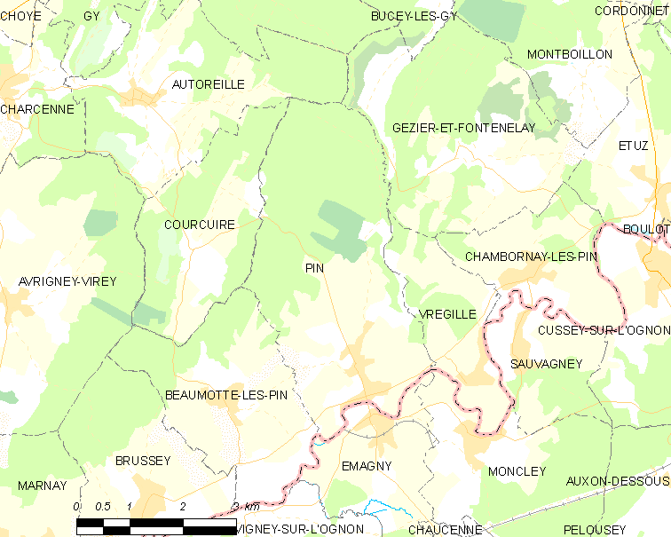 Map of French municipality